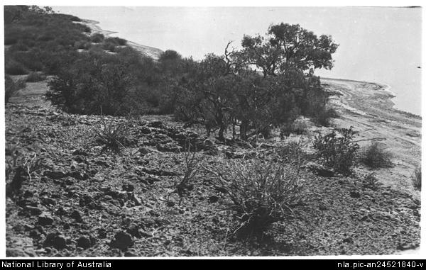 Diamantina River at Durrie, Qld. [picture] : part of scenes of far western Queensland, Fred McKay gulf patrol, 1937